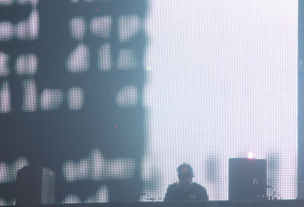 Tha Playah live on stage at the Masters of Hardcore area at Syndicate 2010.